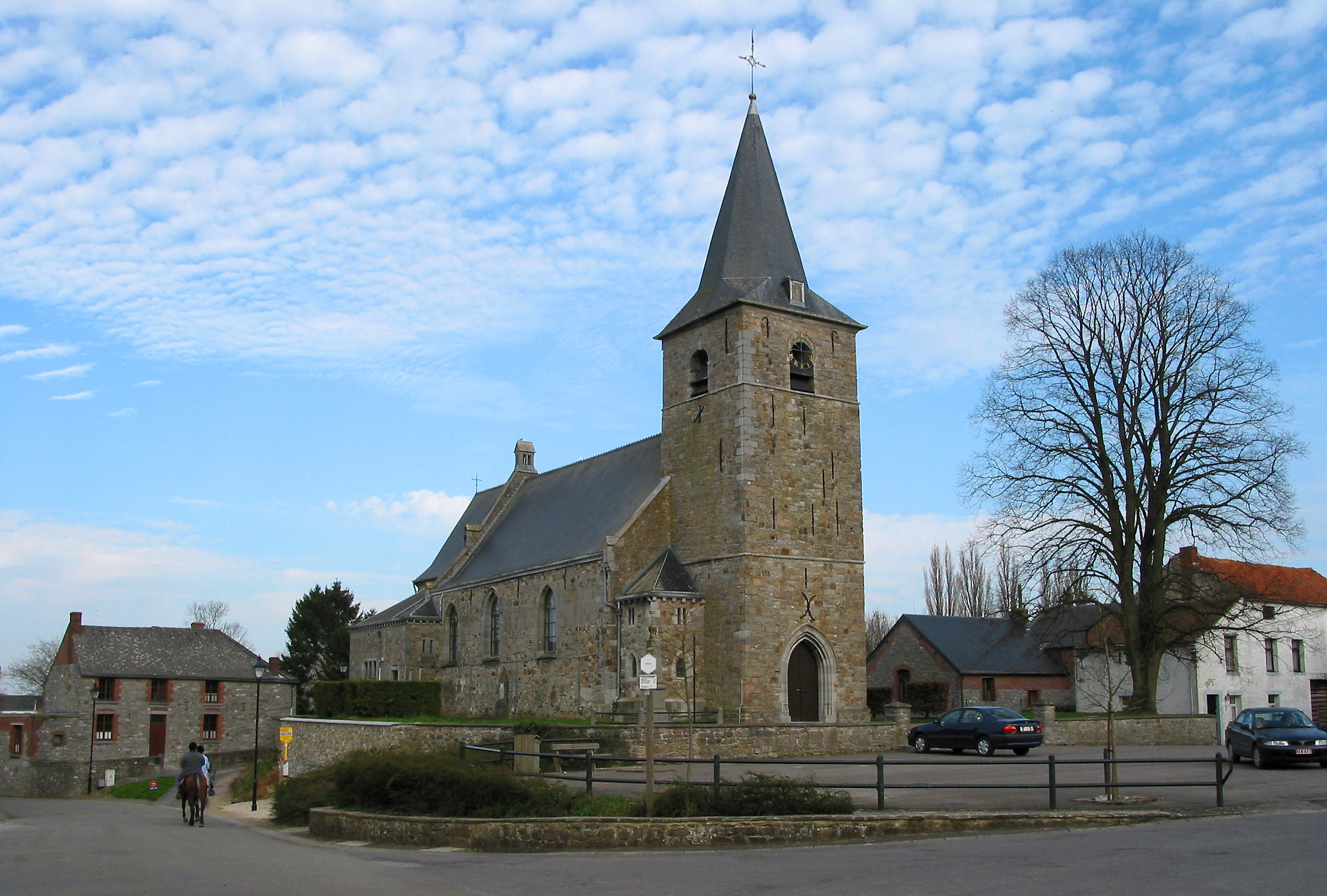 Ragnies, the St. Martin's church (XIIth century).